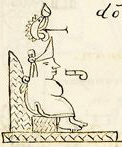 Don Luis de Santa María Nanacacipactzin, colonial governor of Tenochtitlan, from Historia del Imperio Azteco.